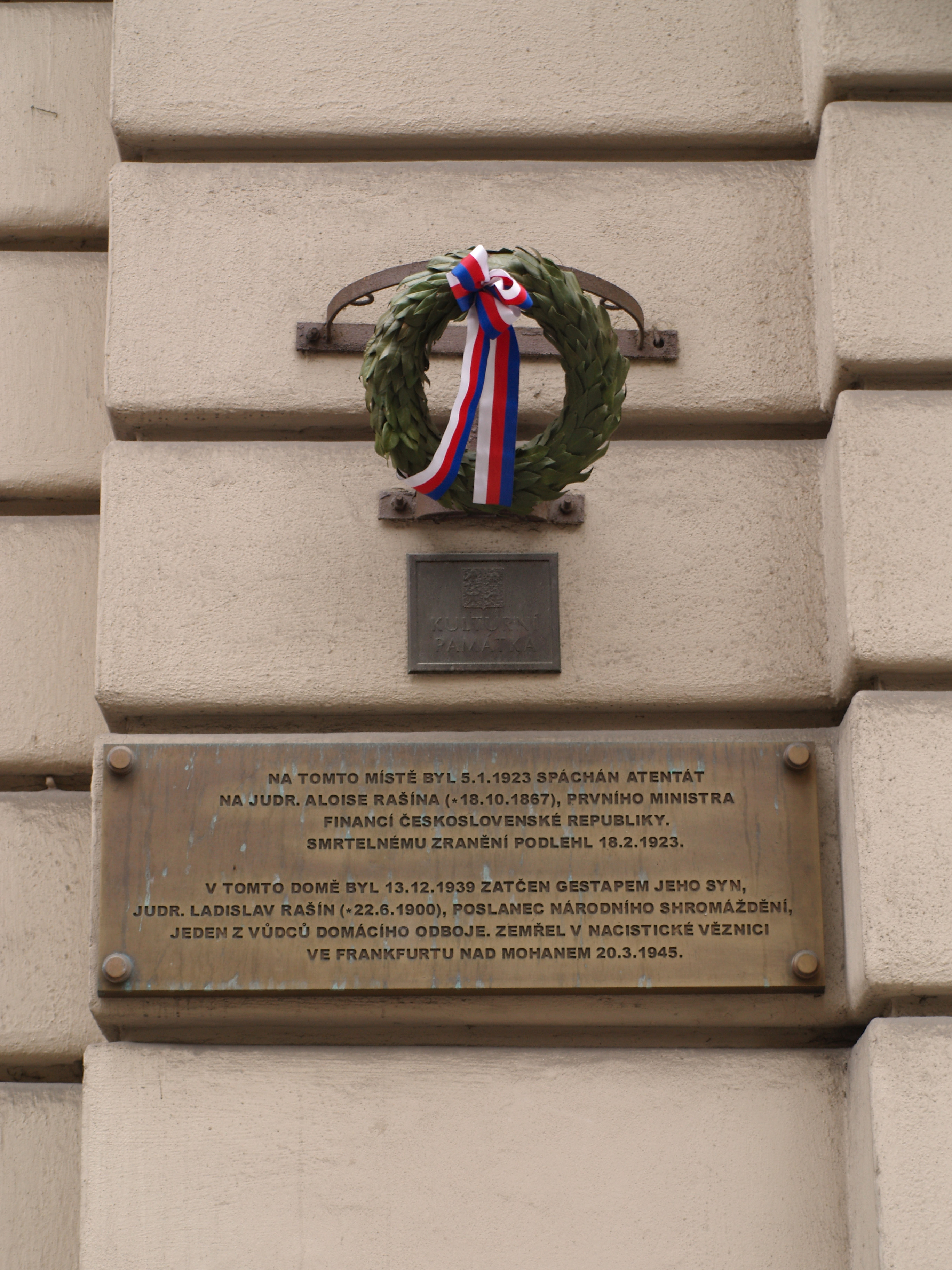 Plaque in memory of Czechoslovak politicians Alois Rašín and his son Ladislav Rašín on the house in Prague where they lived and where Alois was shot by an anarchist in 1923 and Ladislav was taken by Gestapo in 1939; inauguration of the plaque 2003-OCT-17.